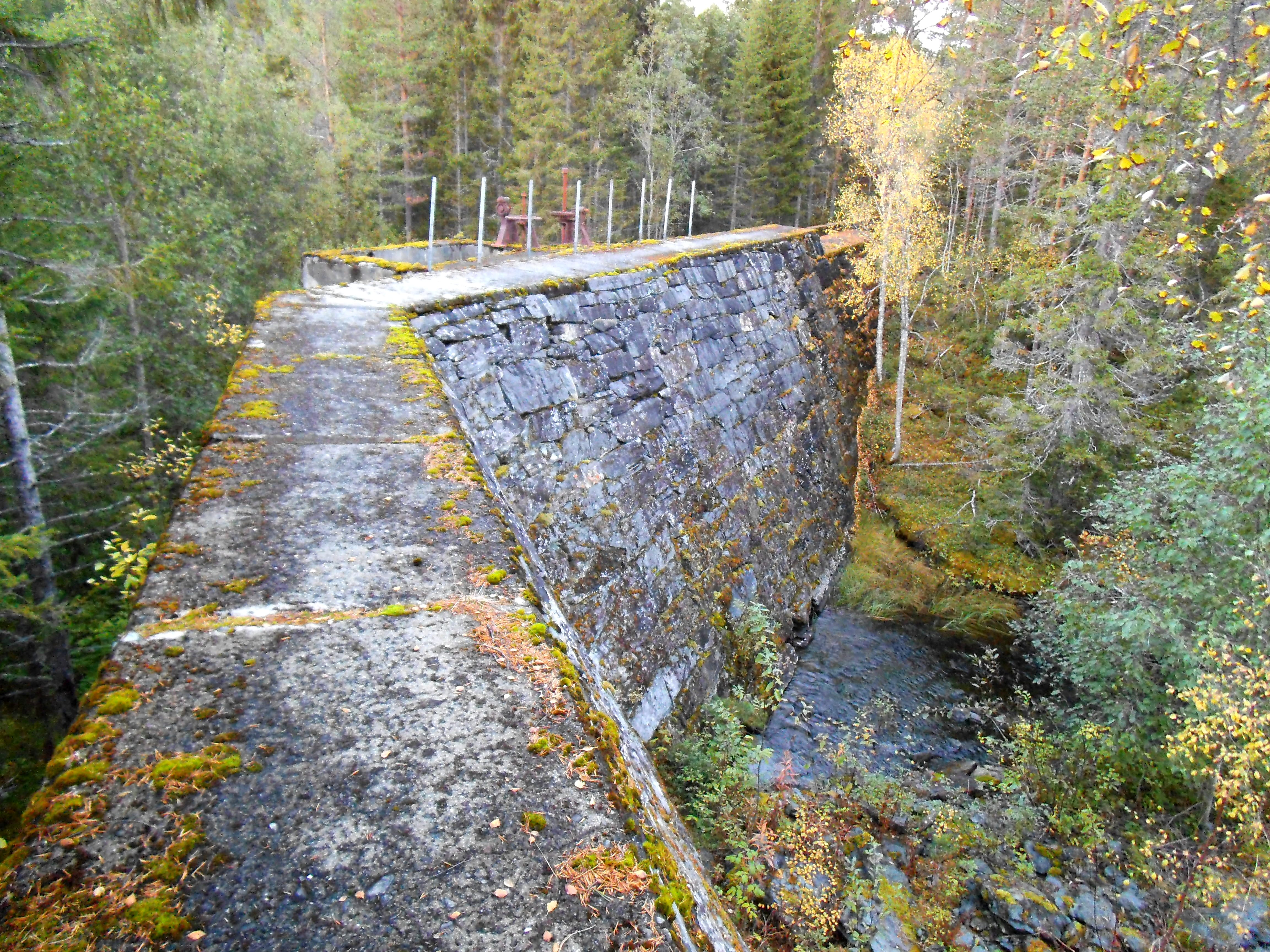 The remains of Grevsjødammen, which where a small dam in Korsvegen, Melhus. The dam was built around 1920 and closed in 1953.